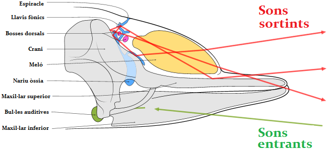 File:Toothed_whale_sound_production.png Catalan version